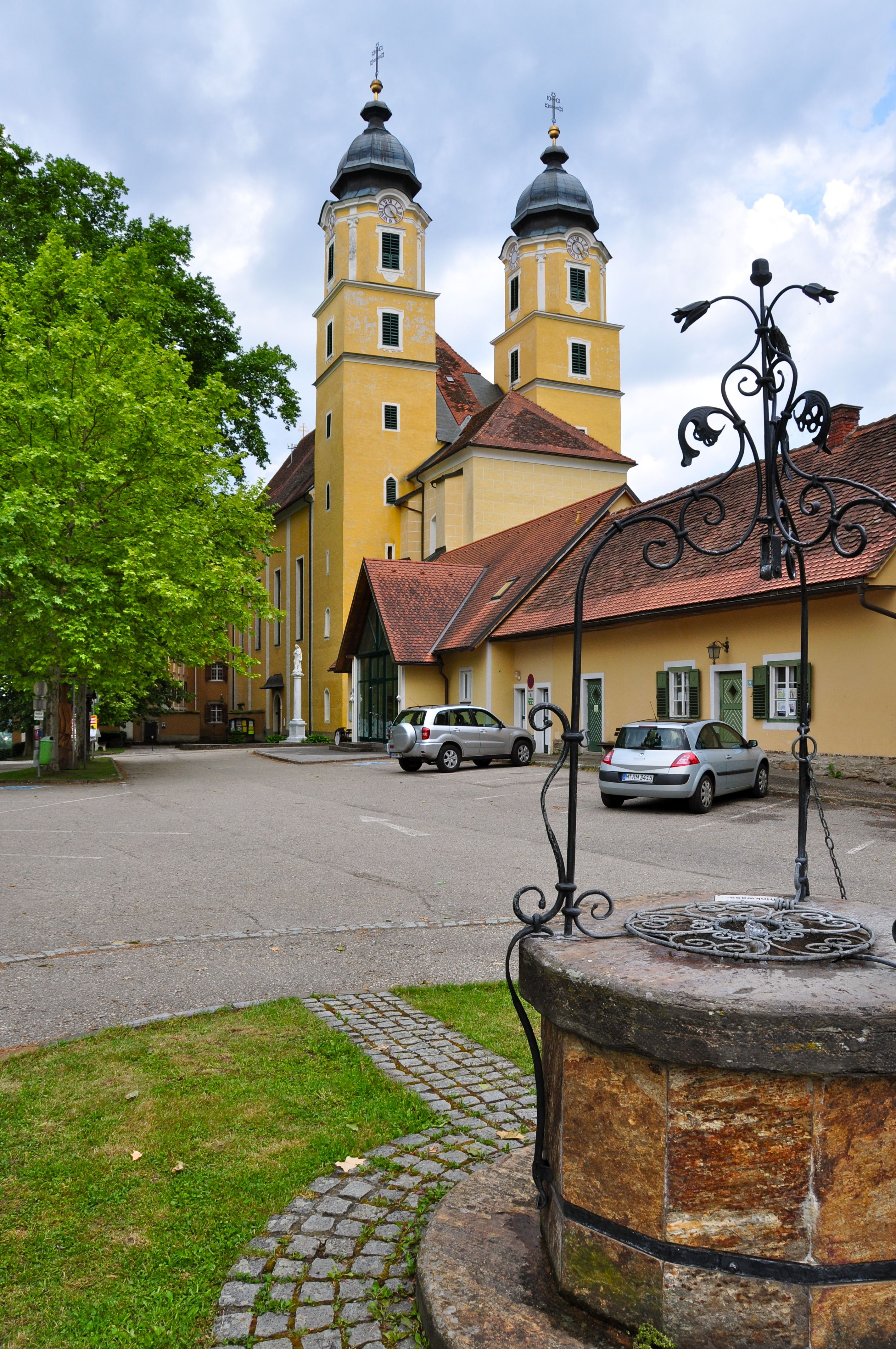 Monastery and parish church Holy Catherine in Stainz, municipality Stainz, district Deutschlandsberg, Styria, Austria